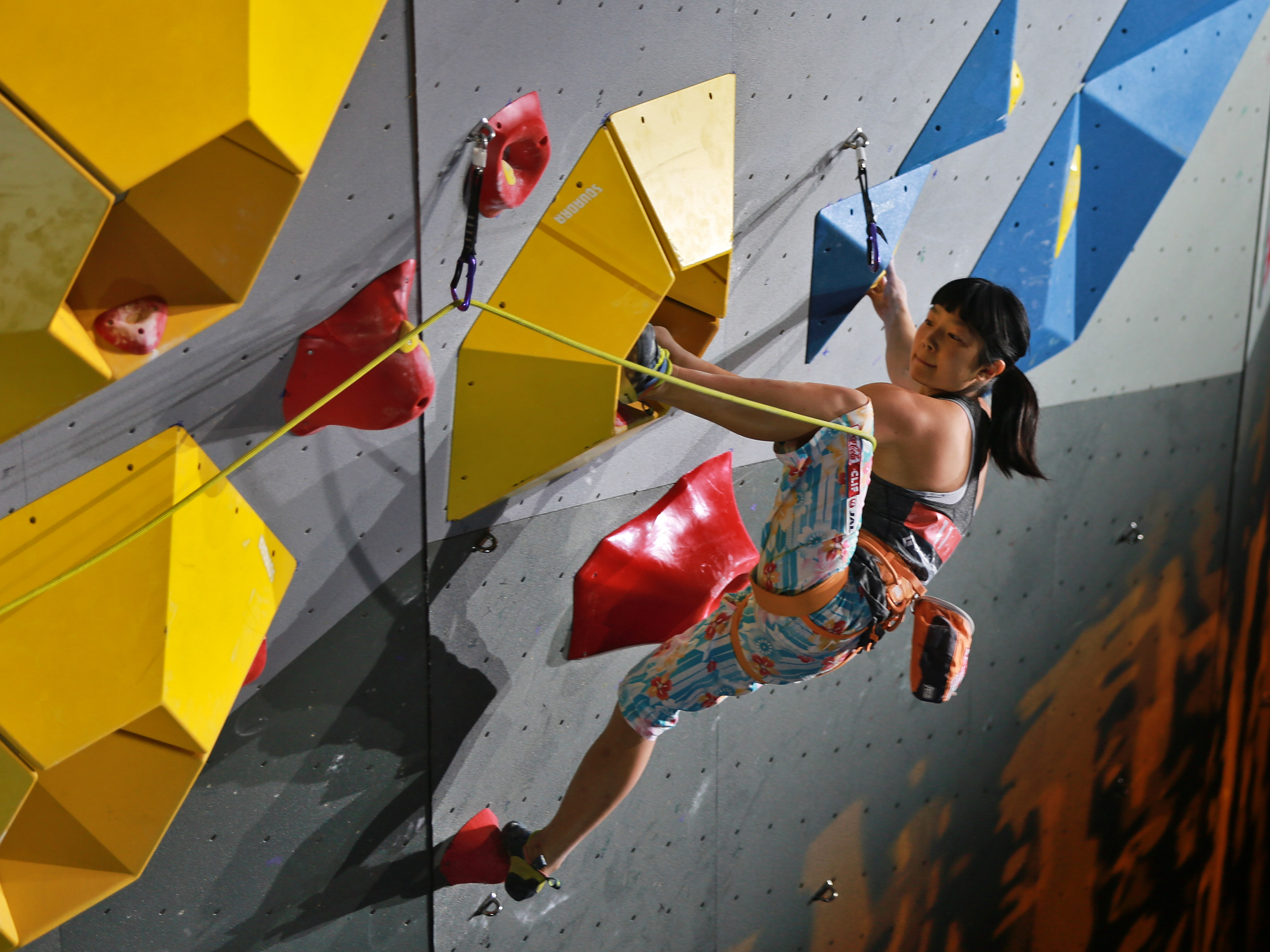 Climbing World Championships 2018 Lead Final Shiraishi